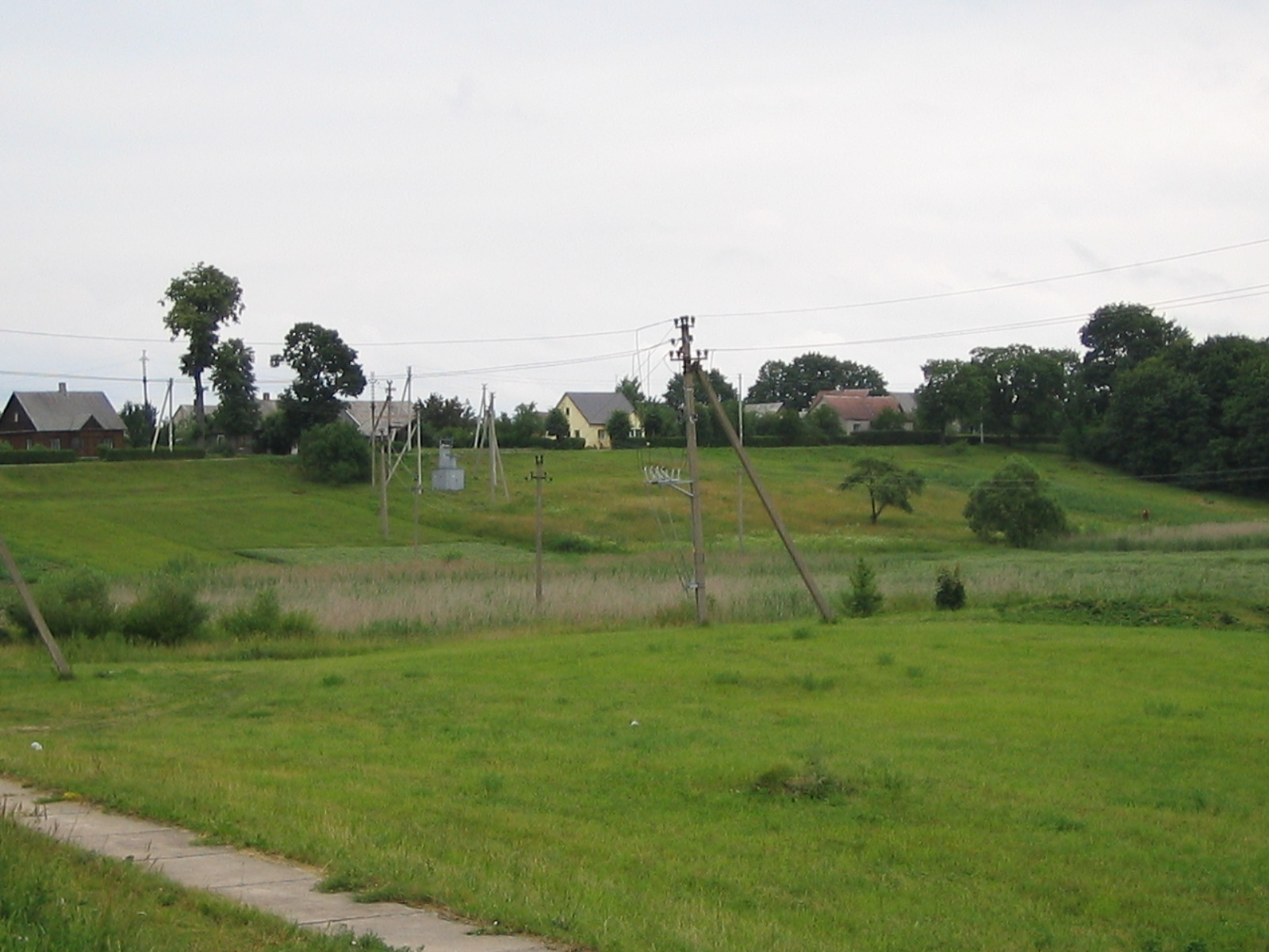 View of Kiemeliai from south (Stasiūnai)